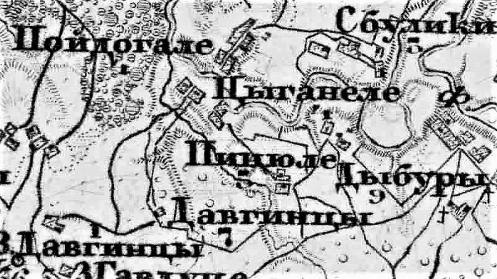 (Peceliai village. 1872)